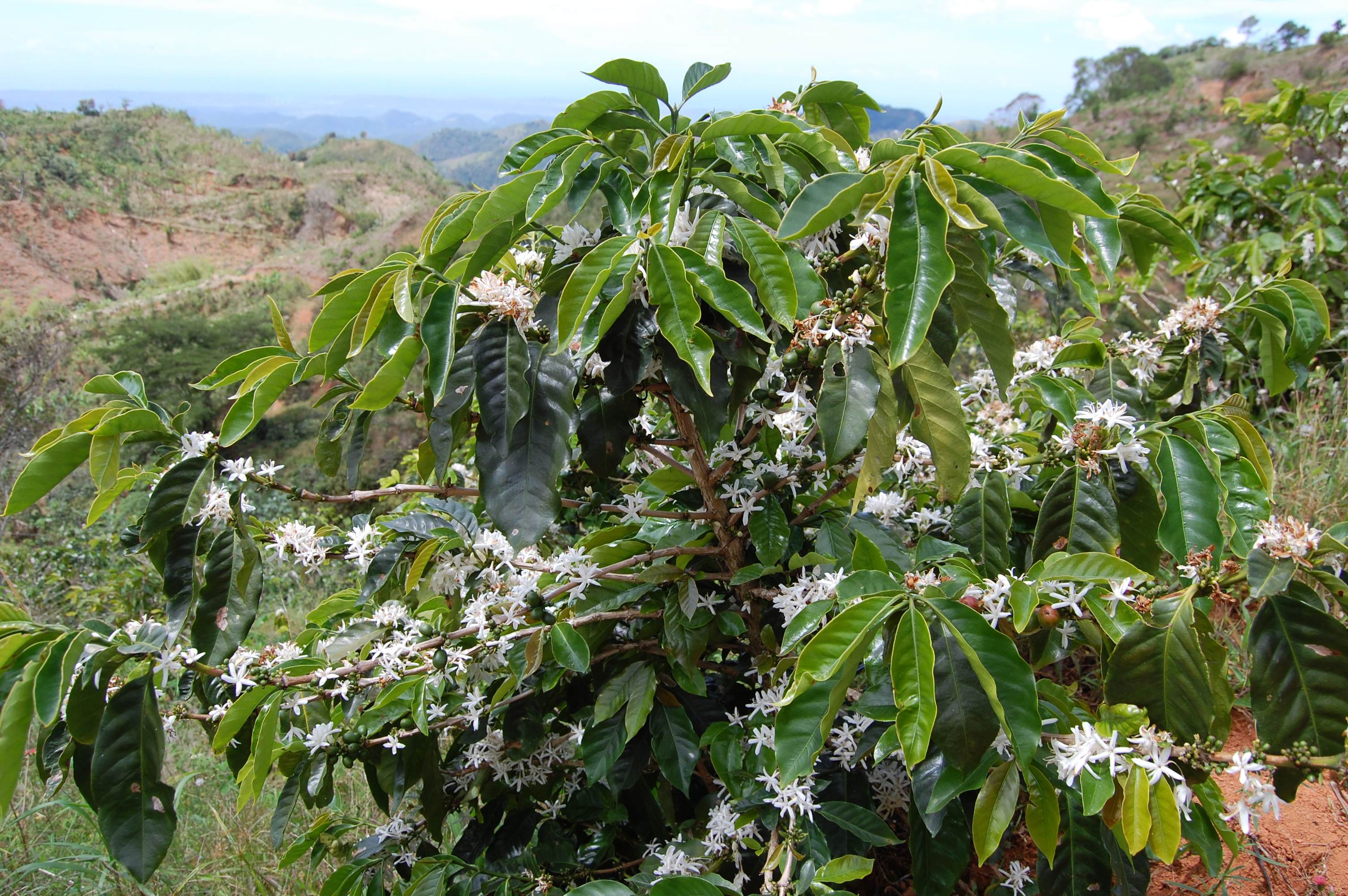 April 25, 2011-Maricao, Puerto Rico. Photo by Lilibeth Serrano, USFWS.